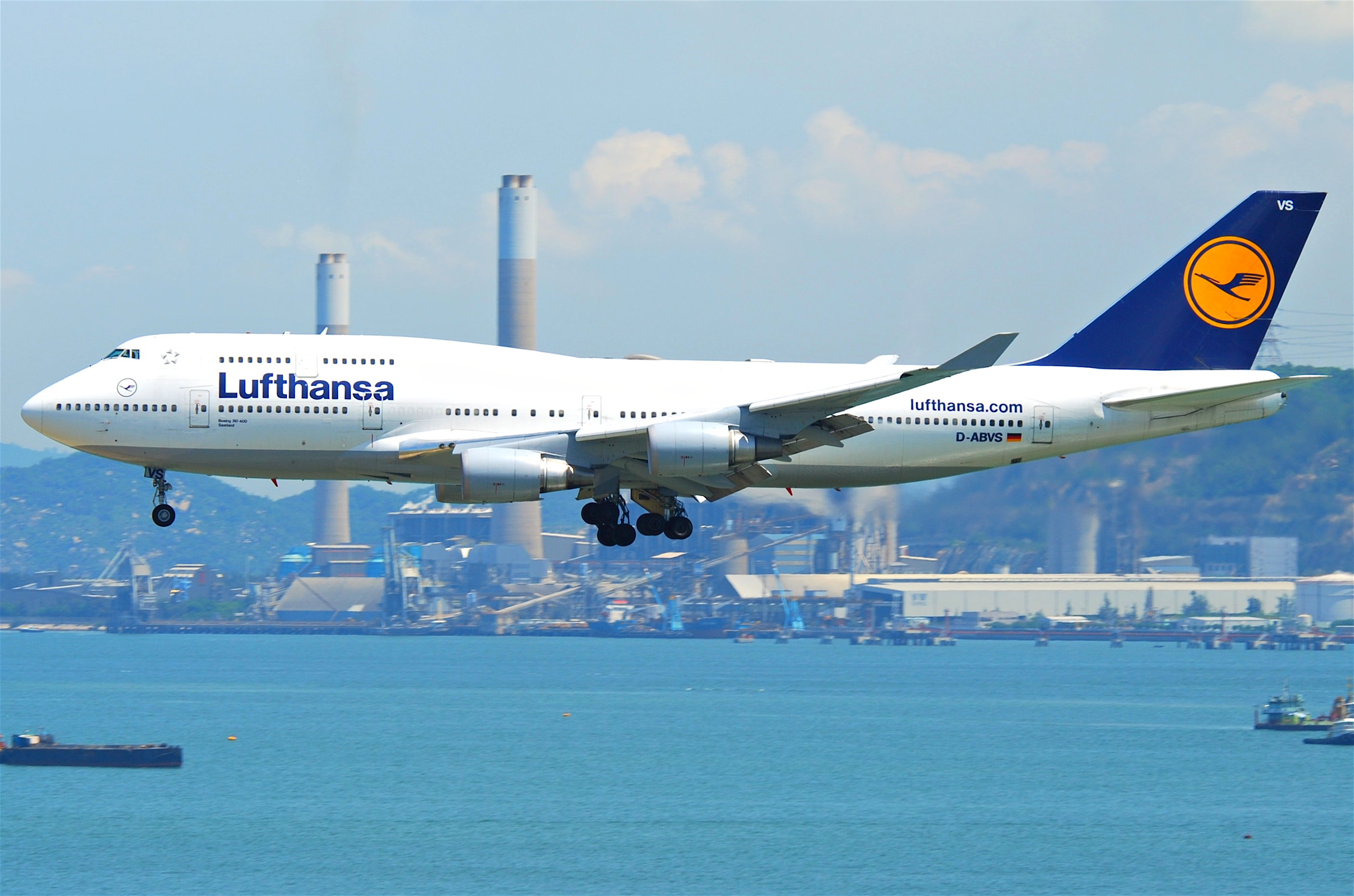 This Boeing 747-430, named 'Saarland', took its first flight on April 4, 1997...